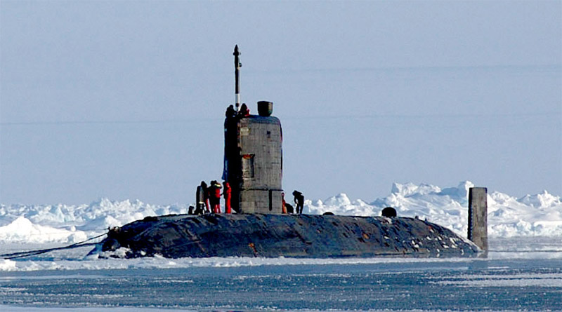 040419-N-6027E-001 North Polar Region - The Royal Navy Trafalgar-class attack submarine HMS Tireless sits on the surface of the North Pole. Tireless surfaced with the U.S. Navy Los Angeles-class attack submarine USS Hampton for ICEX 04, a joint operational exercise beneath the polar ice cap. Both Tireless and Hampton crews met on the ice, including scientists traveling aboard both submarines to collect data and perform experiments. The Ice Exercise demonstrates the U.S. and British Submarine Force's ability to freely navigate in all international waters, including the Arctic.